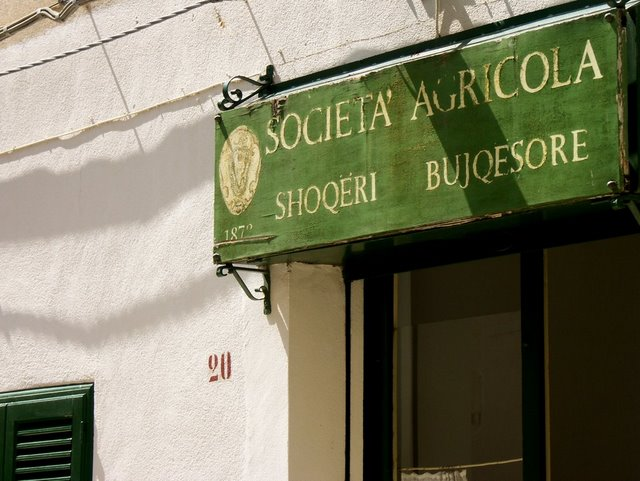 Teaches bilingual (Albanian and italian)